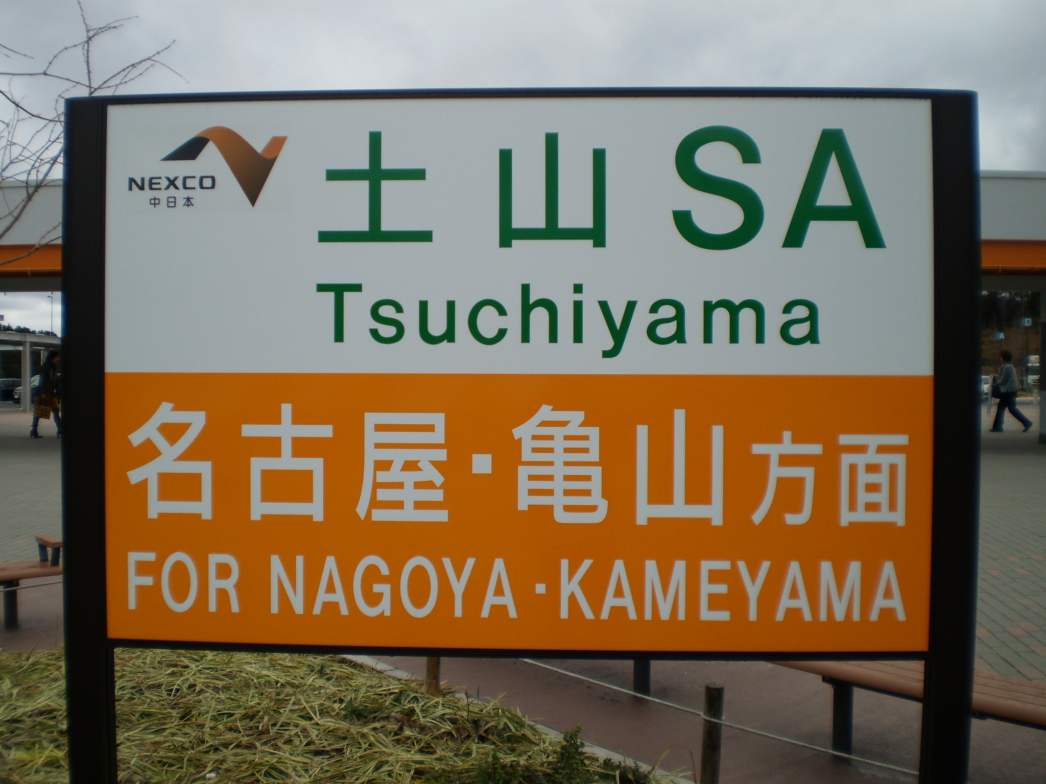 Tsuchiyama Service area